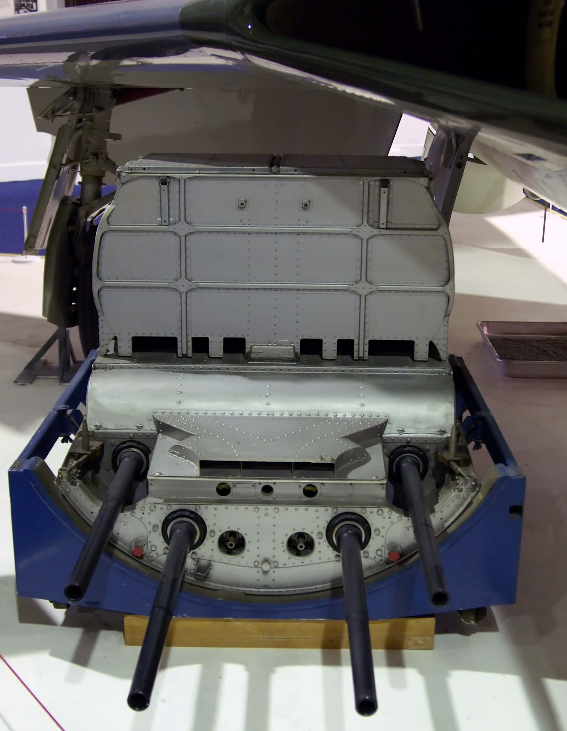 Quad ADEN cannon unit sitting under the wing of a Hawker Hunter. Taken by Max Smith at the RAF Museum, Hendon London.